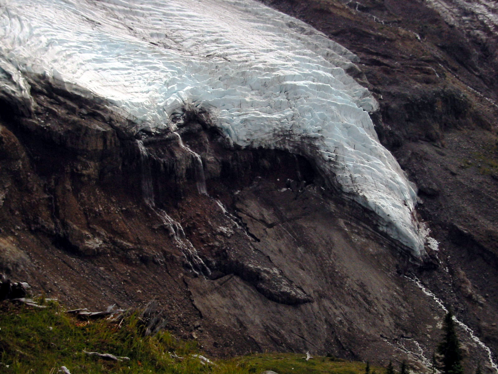 Roosevelt Glacier Terminus Description: Terminus of the Roosevelt Glacier with waterfalls (of Glacier Creek) below ice cliff and stagnant, nearly melted, debris covered remnant below. Viewpoint location: Bastile Ridge, Mount Baker Wilderness, Washington, USA. Lat/Long: 48.8073°N, 121.8524°W (WGS84/NAD83) USGS Mount Baker Quad [1] Viewpoint elevation: 5720' View direction: South Date and time: 2004.09.06 13:49:26 PDT Camera: Canon PowerShot S110 Photographer: Walter Siegmund ©2005 Walter Siegmund